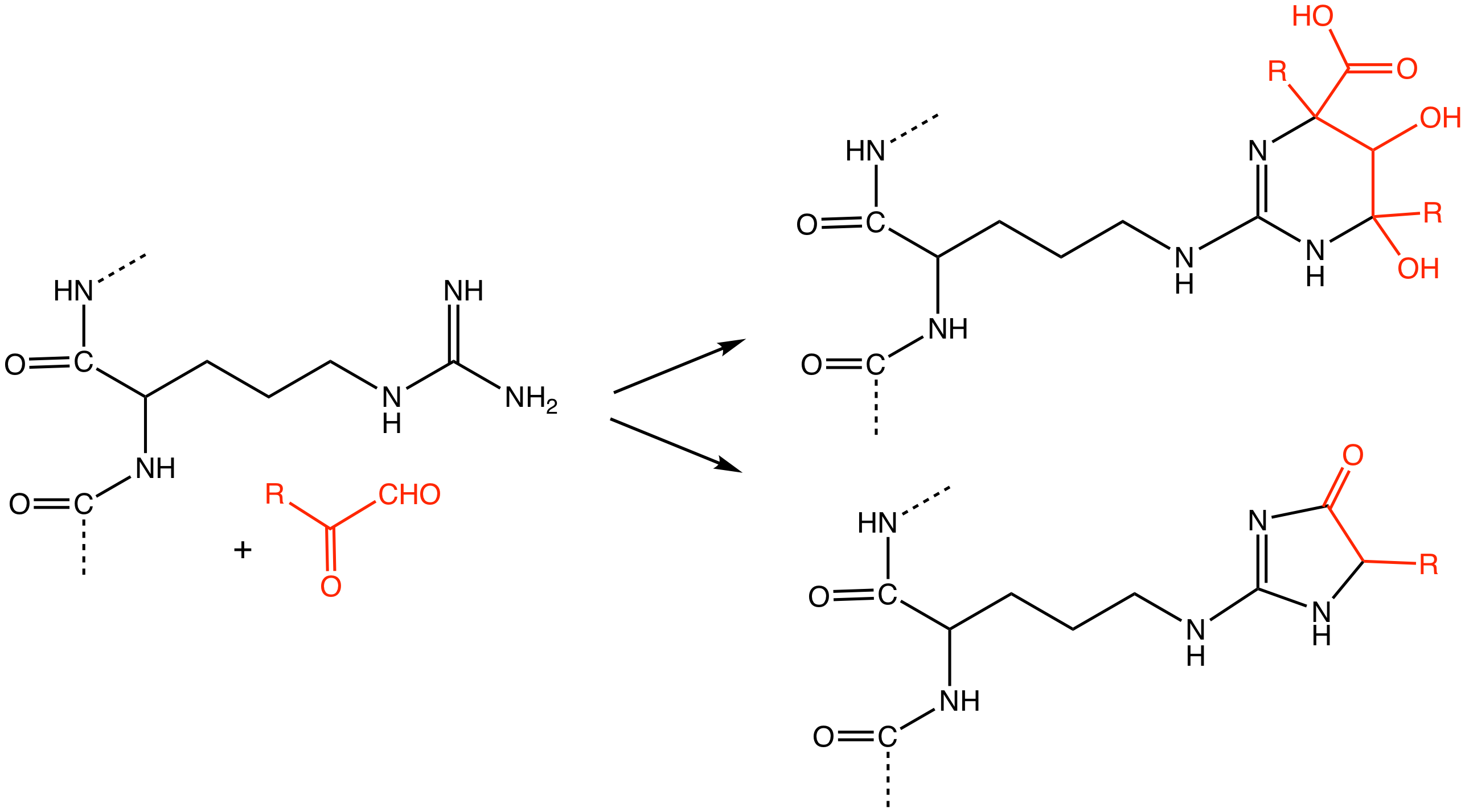 Methylglyoxal-derived pyrimidine and imidazolone